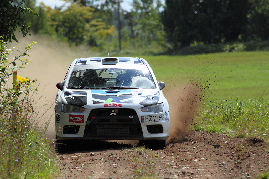 Rally driver Dominykas Butvilas, Mitsubishi Lancer Evo X